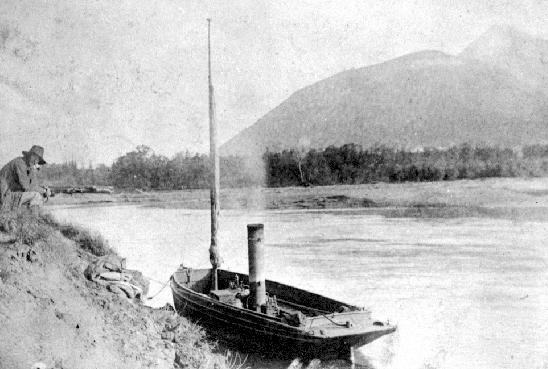 Midge first steamboat on Kootenay Lake.